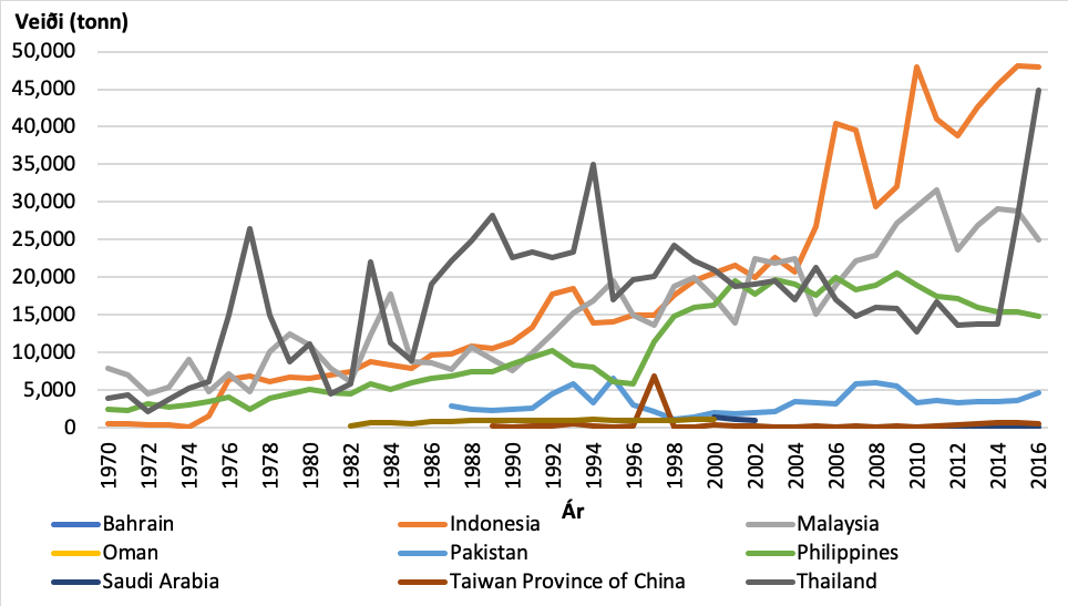 Torpedo scad catch after countries